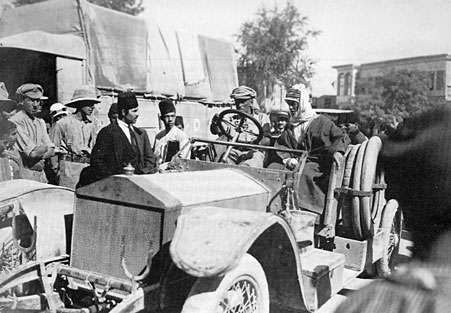 T. E. Lawrence driving through Damascus in his Rolls-Royce armoured car named Blue Mist, October 1918.